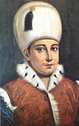 Osman II